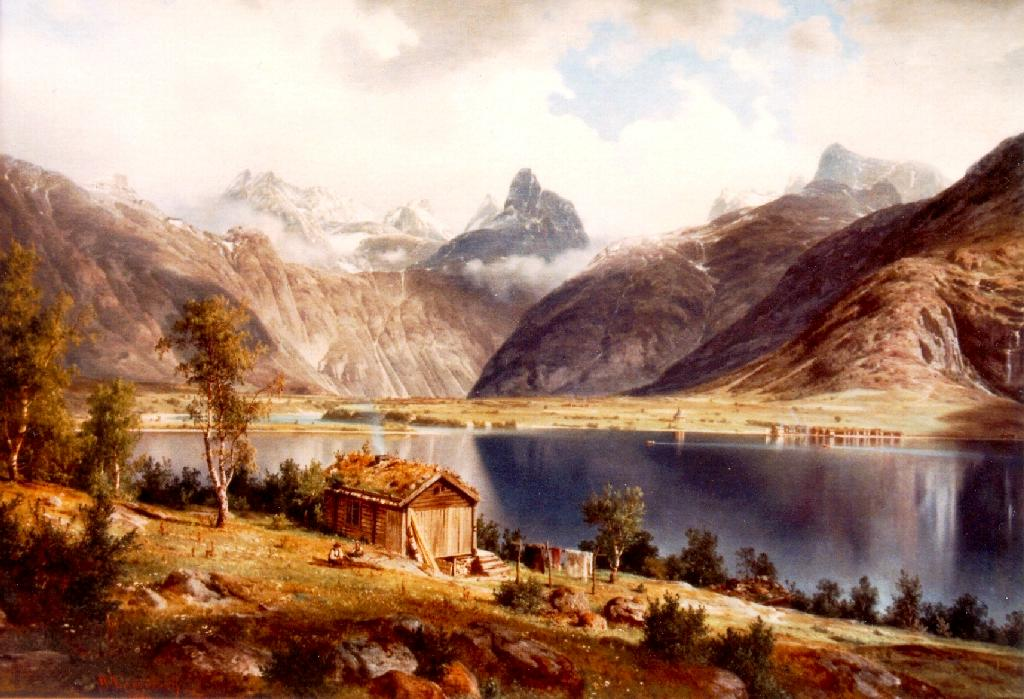 Painting shows the Romsdalshorn mountain and Veblungsnes can be seen on the right by the beach